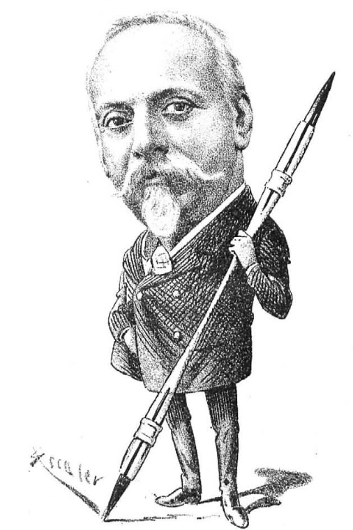 Eusebi Planas i Franquesa by Ramon Escaler, published in Barcelona cómica of 30.4.1891